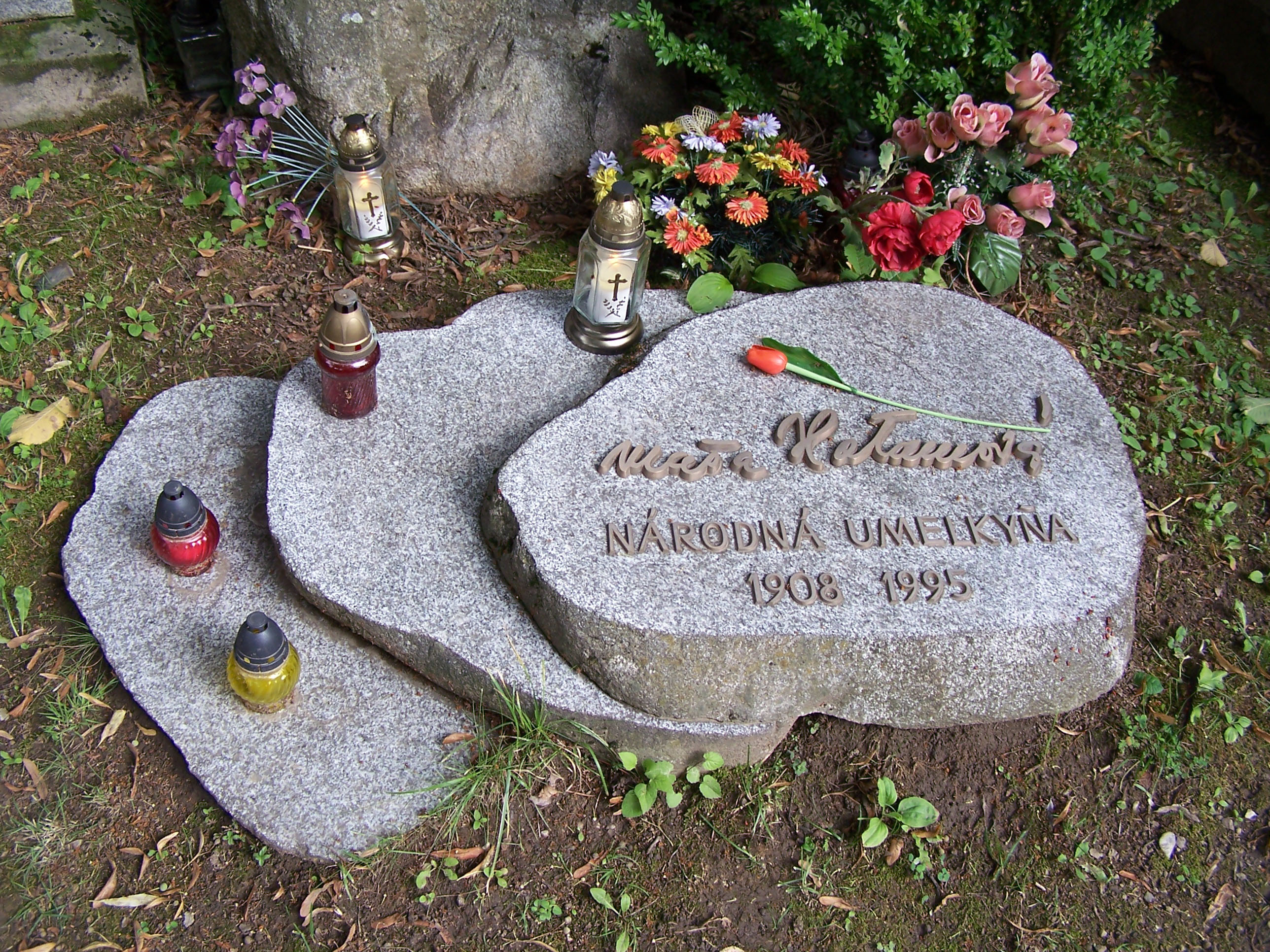 Grave of Maša Haľamová at the National Cemetery in Martin, Slovakia